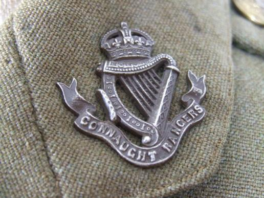 Connaught Ranger's Badge